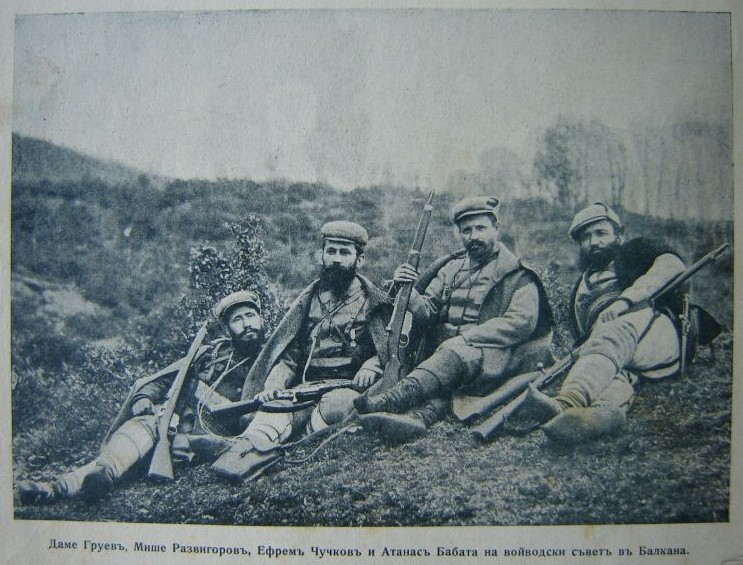 Dame Gruev, Mishe Razvigorov, Efrem Chuckov, Atanas Babata